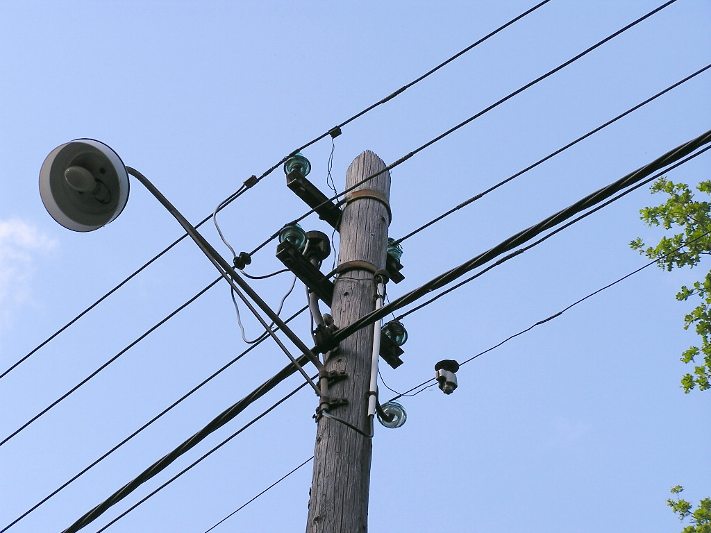 Street light on overhead powerline